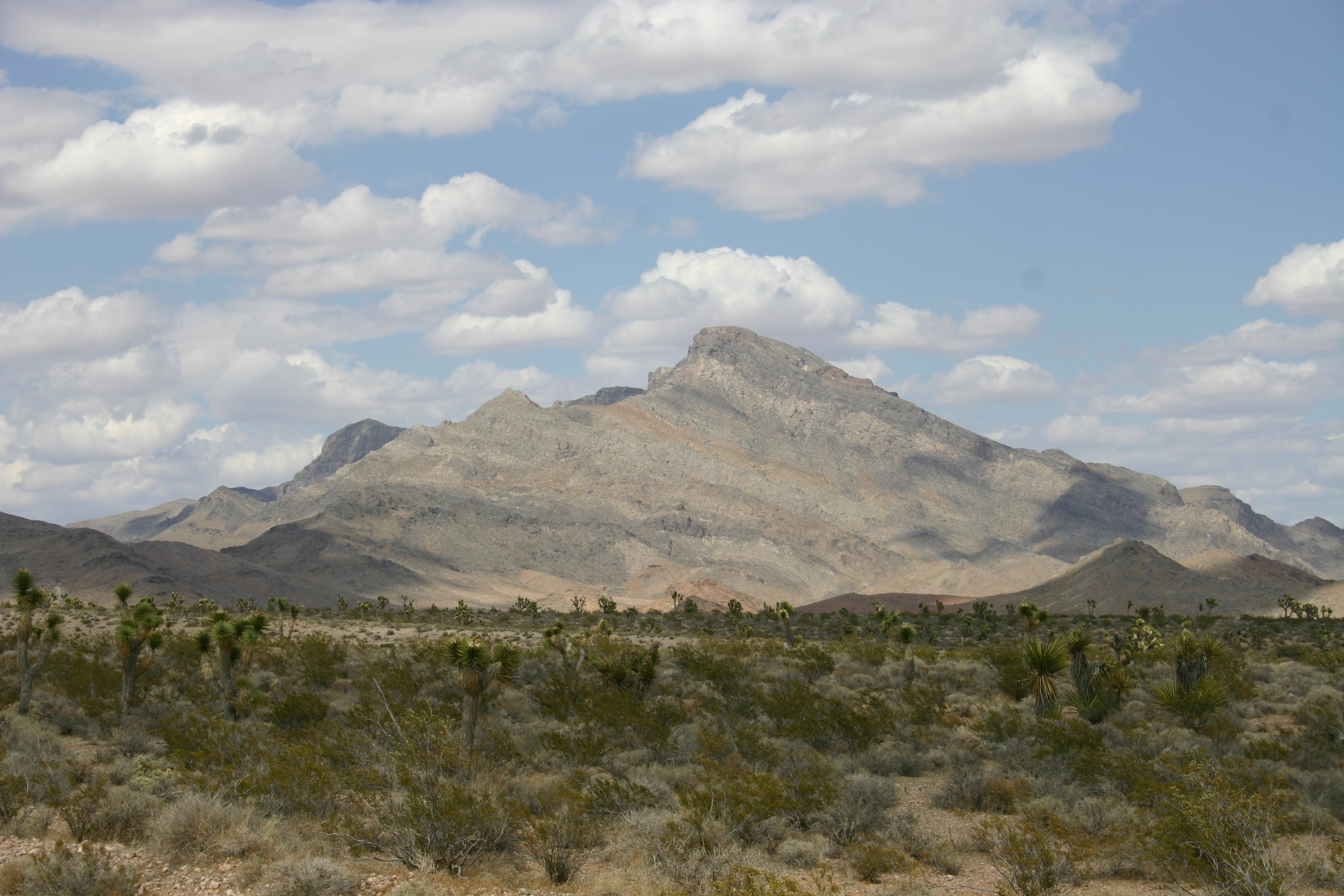 East Mormon Mountains in southeast Nevada